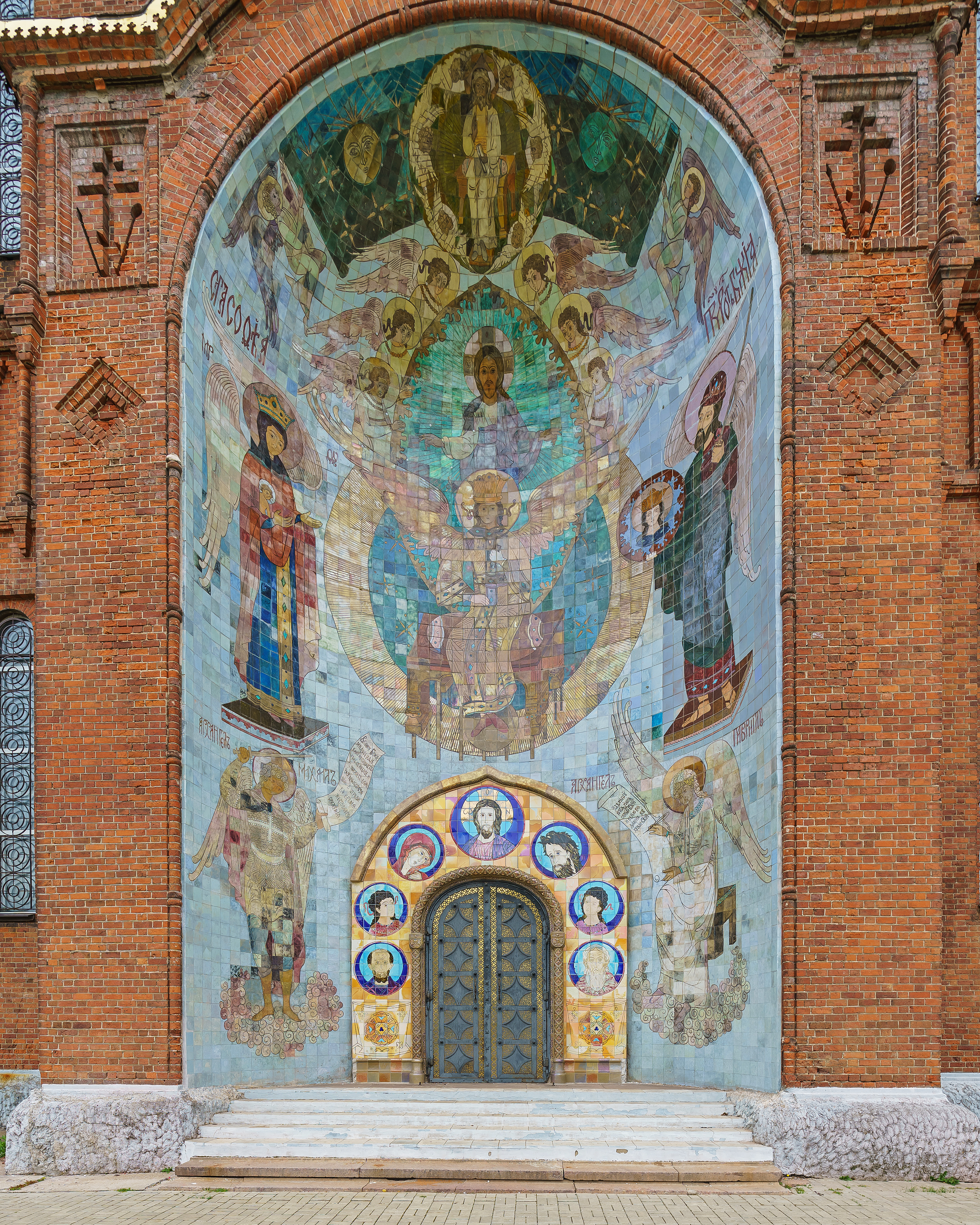 Maiolica at the Resurrection Church in Vichuga, Ivanovo Oblast, Russia.